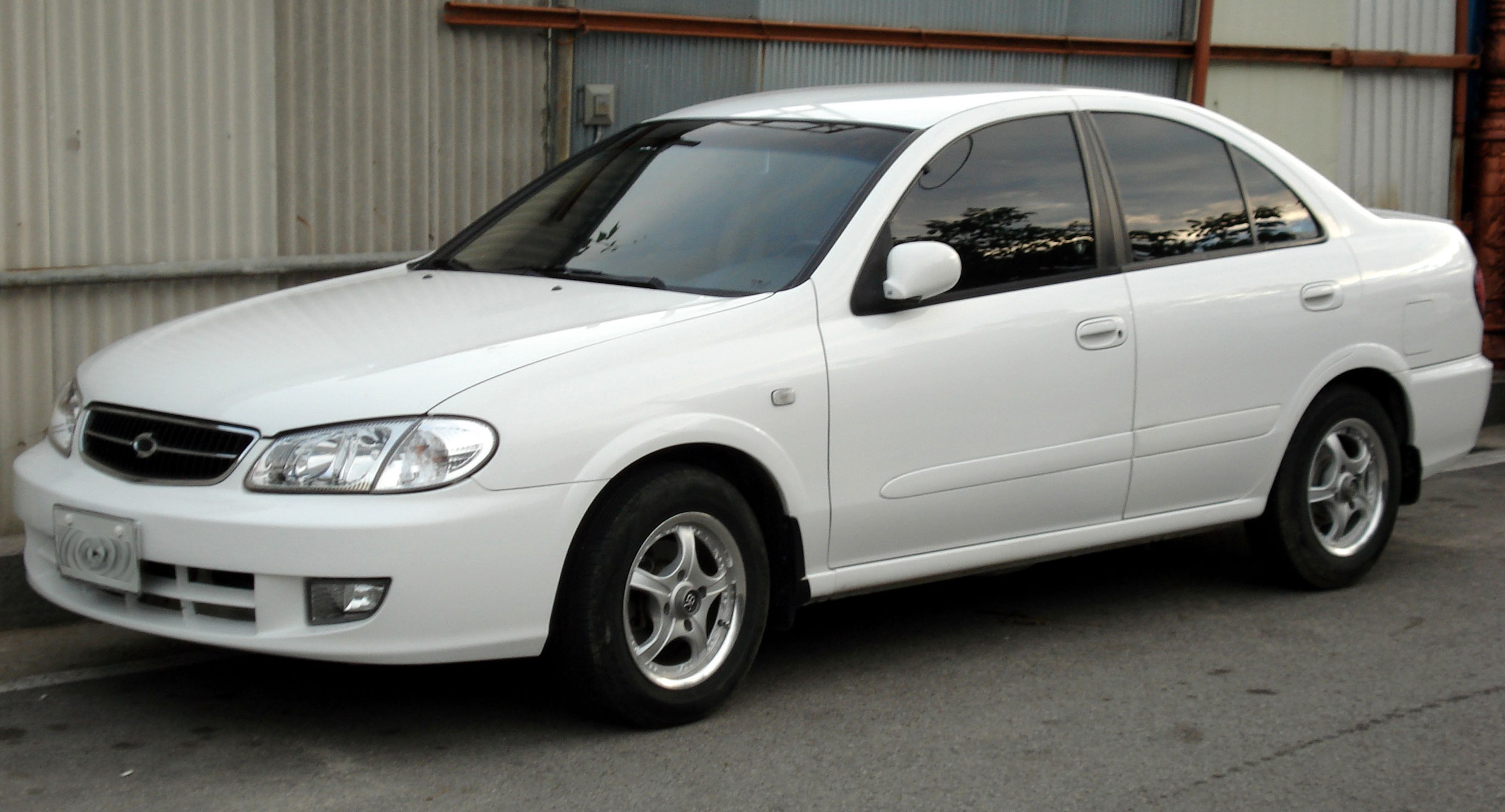 Renault Samsung SM3